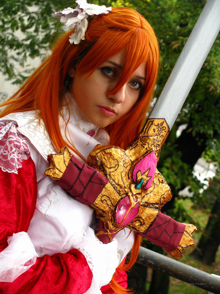 Juliet cosplayer from Romeo x Juliet anime series at Lucca Cosplay 2008